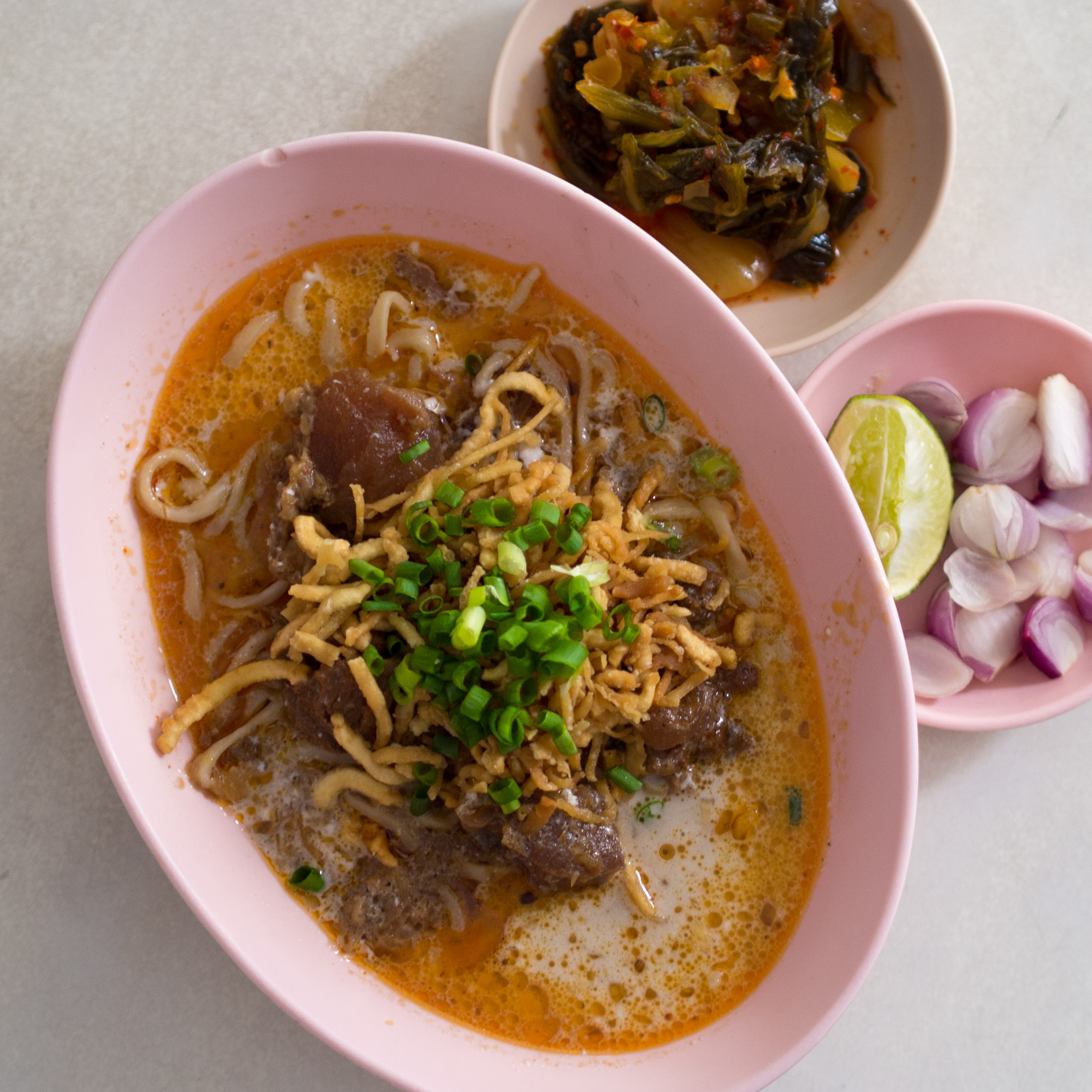 Khao soi nuea (Thai script: ข้าวซอยเนื้อ): beef khao soi in Chiang Mai at "Khao Soy Fueng Fah" restaurant. It is served with spicy pickled cabbage, raw shallots, lime, and (not shown on the image) an oil-fried chilli-and-garlic paste. This particular version is a Muslim version of the dish. According to various sources, it is the Muslim version that is the original version of the khao soi of Chiang Mai.